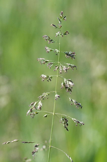 Picture taken in Commanster, Belgian High Ardennes.